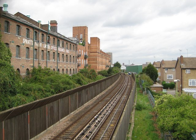 Poplar: Docklands Light Railway The DLR follows the route of the former North London Railway here, swinging past the former Spratts pet food factory on the left and the houses in Daniel Bolt Close on the right, as it approaches the crossing over Limehouse Cut. The blue parapet of the bridge over the canal is just visible in front of the distant green factory building.